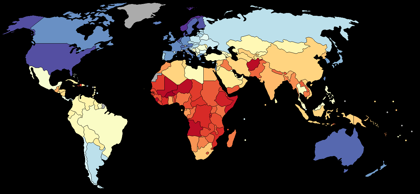 map of a composite index called quality of human conditions from IQ and Global Inequality.